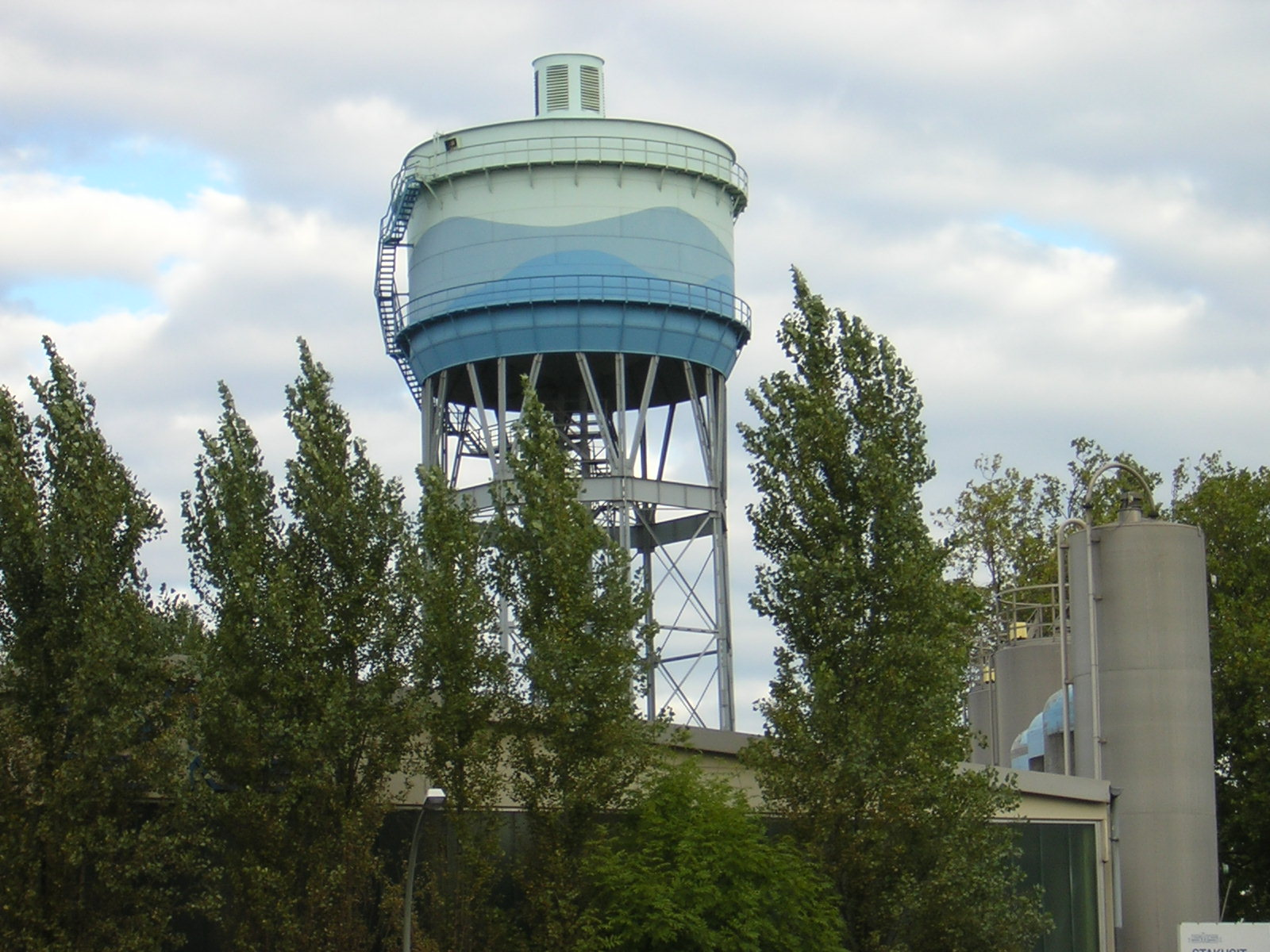 Water tower of an industrial plant in the Duisburg district Homberg (North Rhine-Westphalia, Germany).